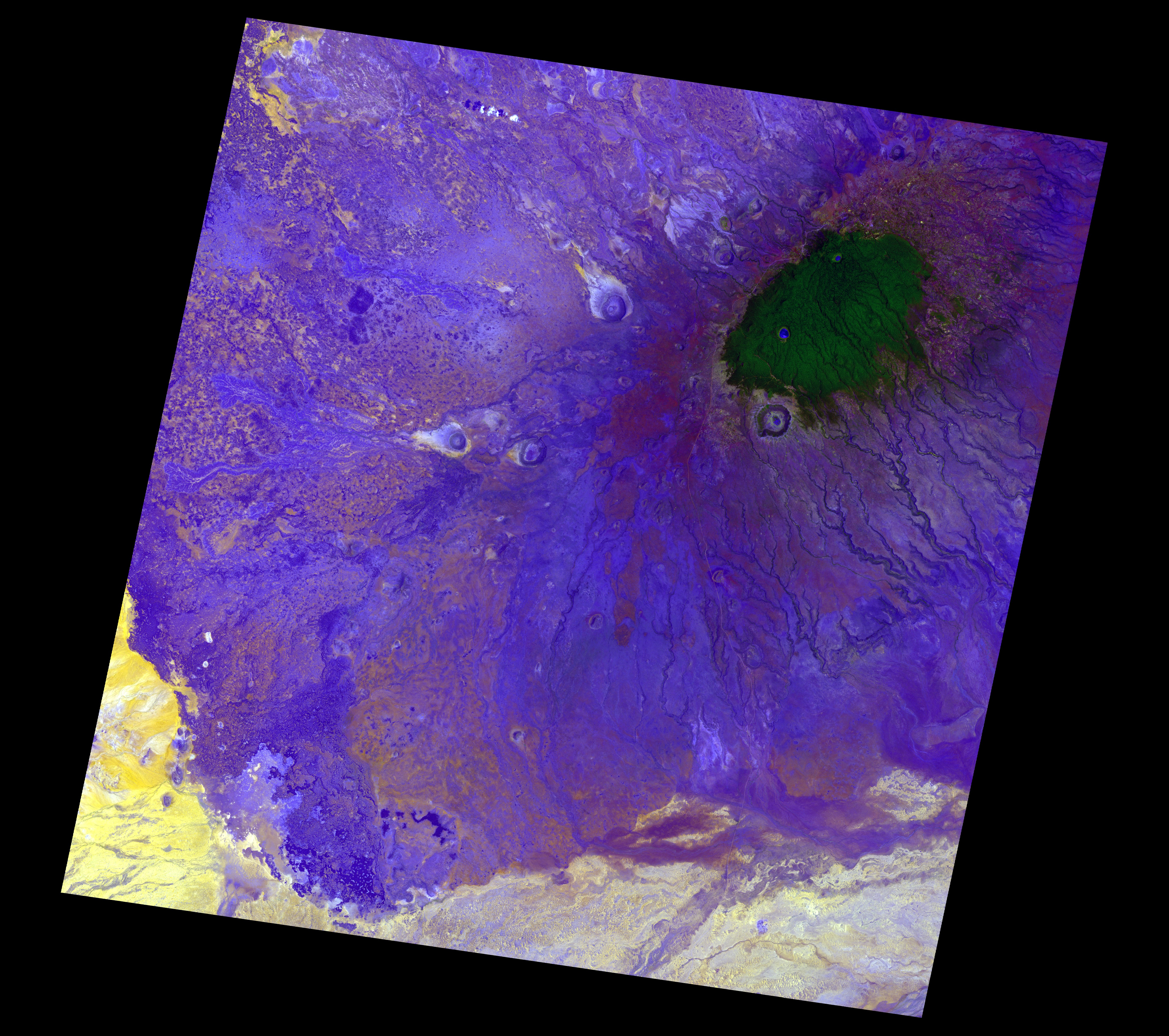 Marsabit, a large shield volcano in Kenya, viewed from space.